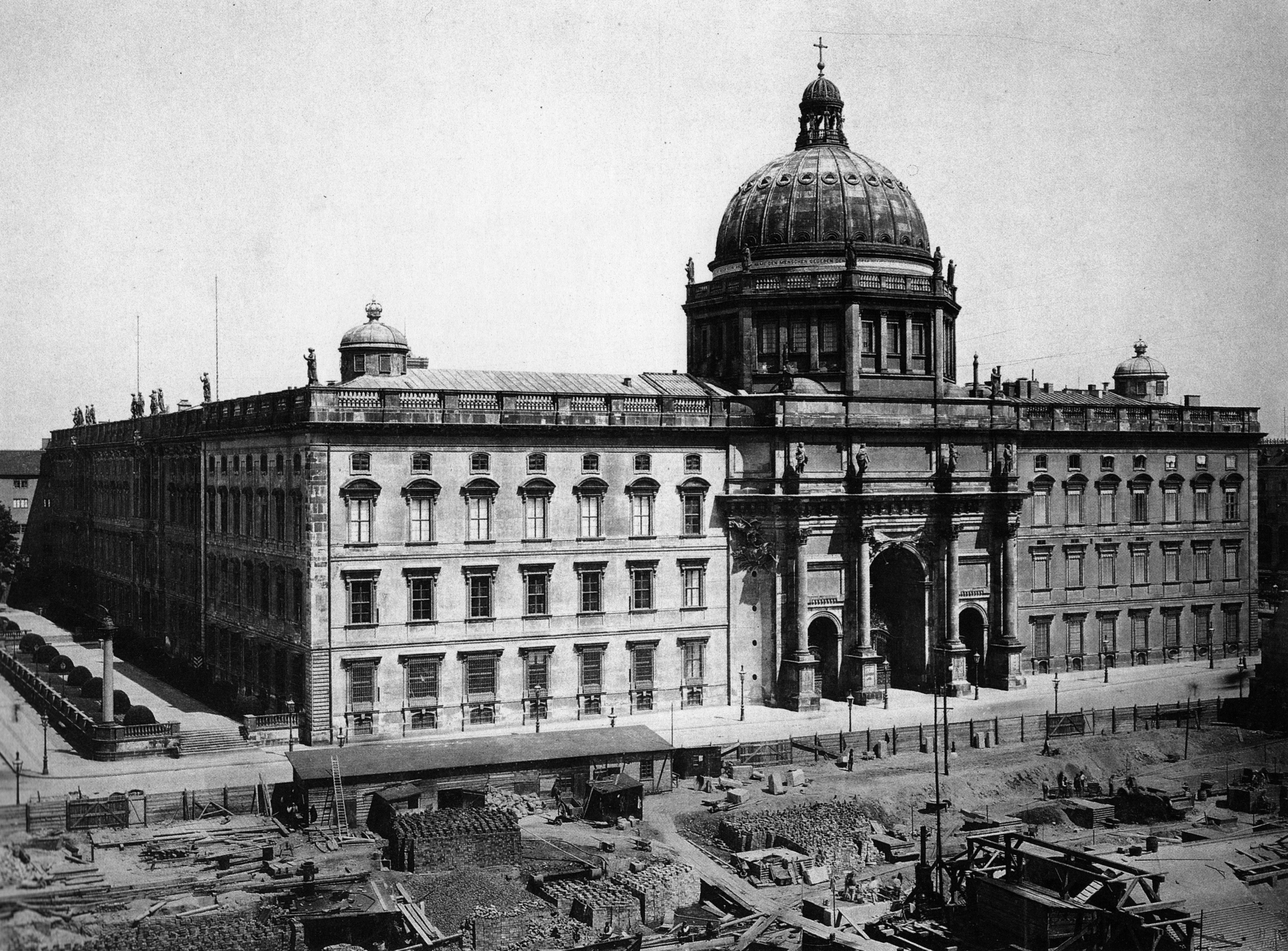 The Berlin City Palace after the demolishion of the Schloßfreiheit buildings. The open square is nowadays known as Schloßplatz.